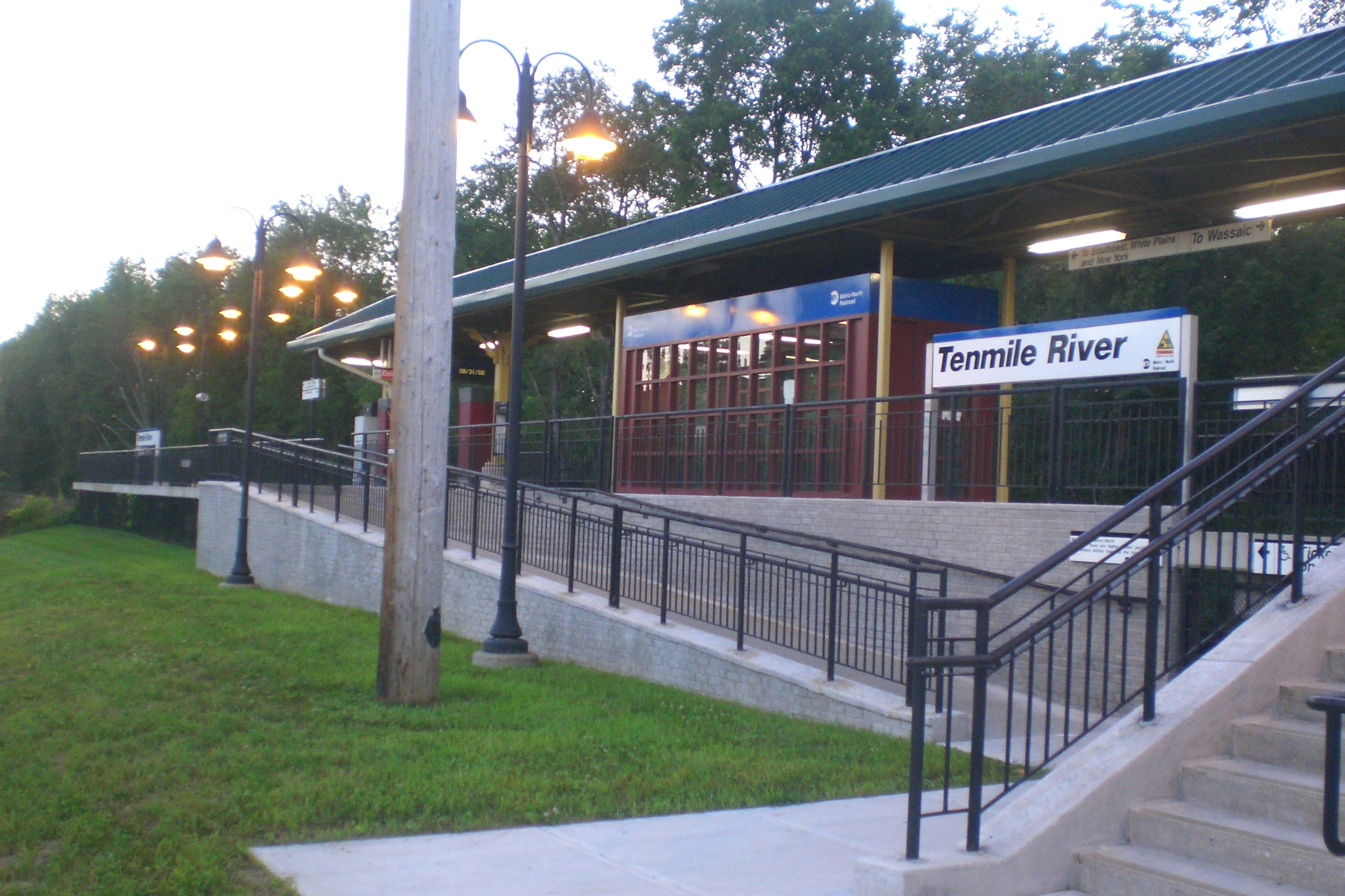 Picture of the Tenmile River train station